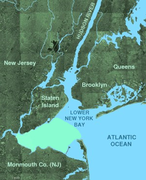 Raritan Bay © 2004 Matthew Trump